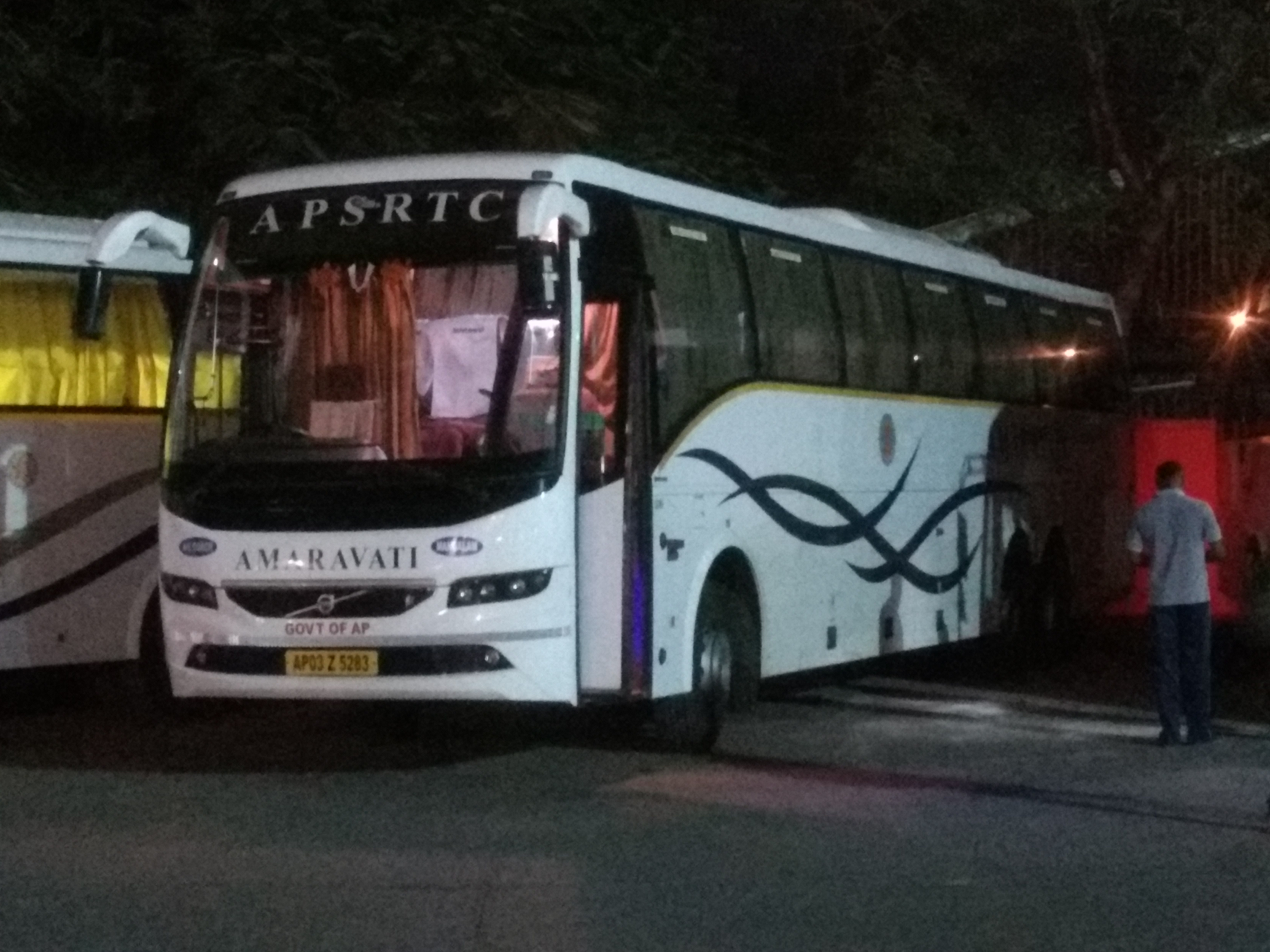 APSRTC Amaravathi bus at Vijayawada Bus Station